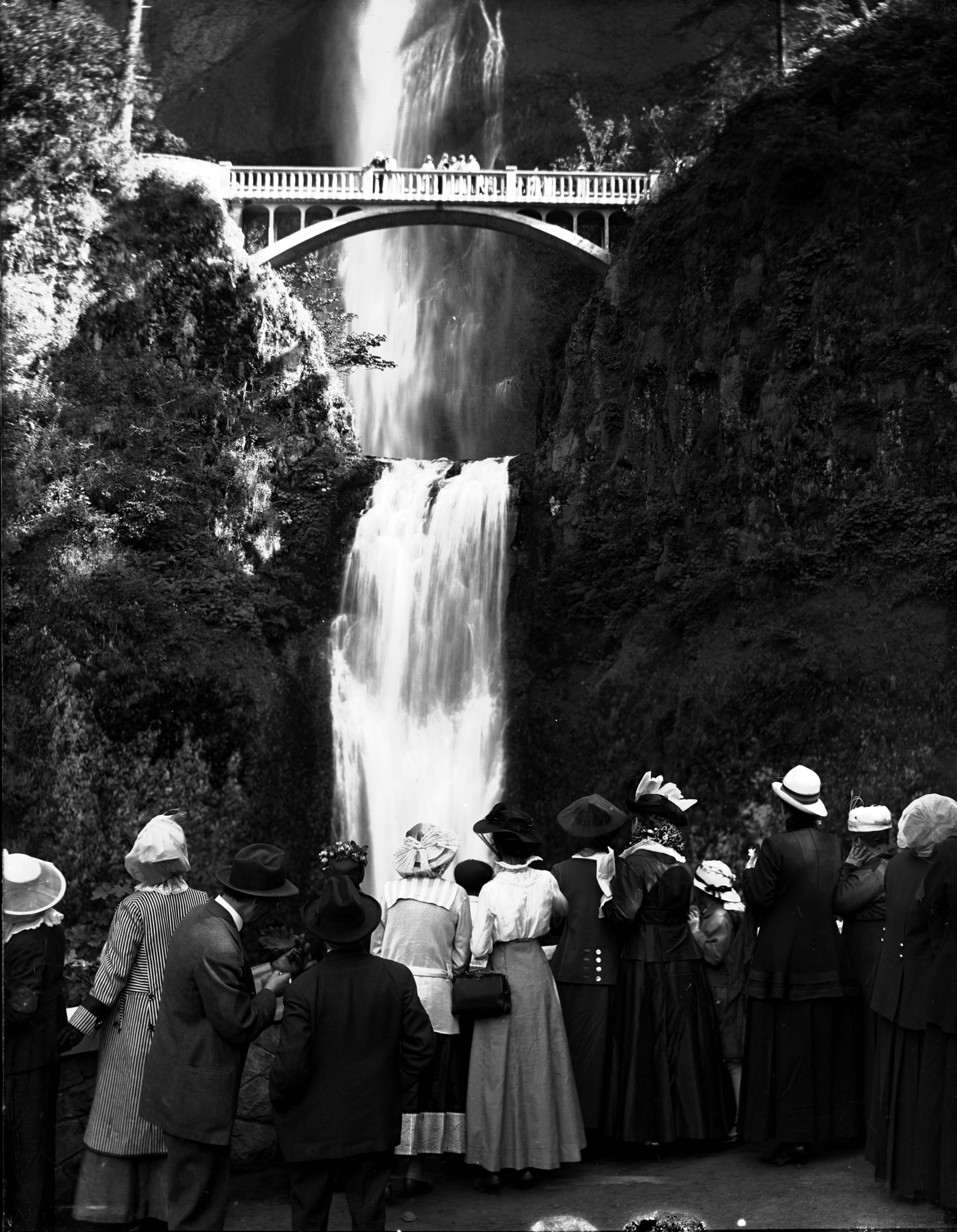 Description/Notes: Photo was used on page 31 of the 1986/1987 OSU Foundation Annual Report. Original Collection: Gifford Photographic Collection Item Number: P218 You can find this image by searching for the item number by clicking here. Want more? You can find more digital resources online. We're happy for you to share this digital image within the spirit of The Commons; however, certain restrictions on high quality reproductions of the original physical version may apply. To read more about what “no known restrictions” means, please visit the Special Collections & Archives website, or contact staff at the OSU Special Collections & Archives Research Center for details.